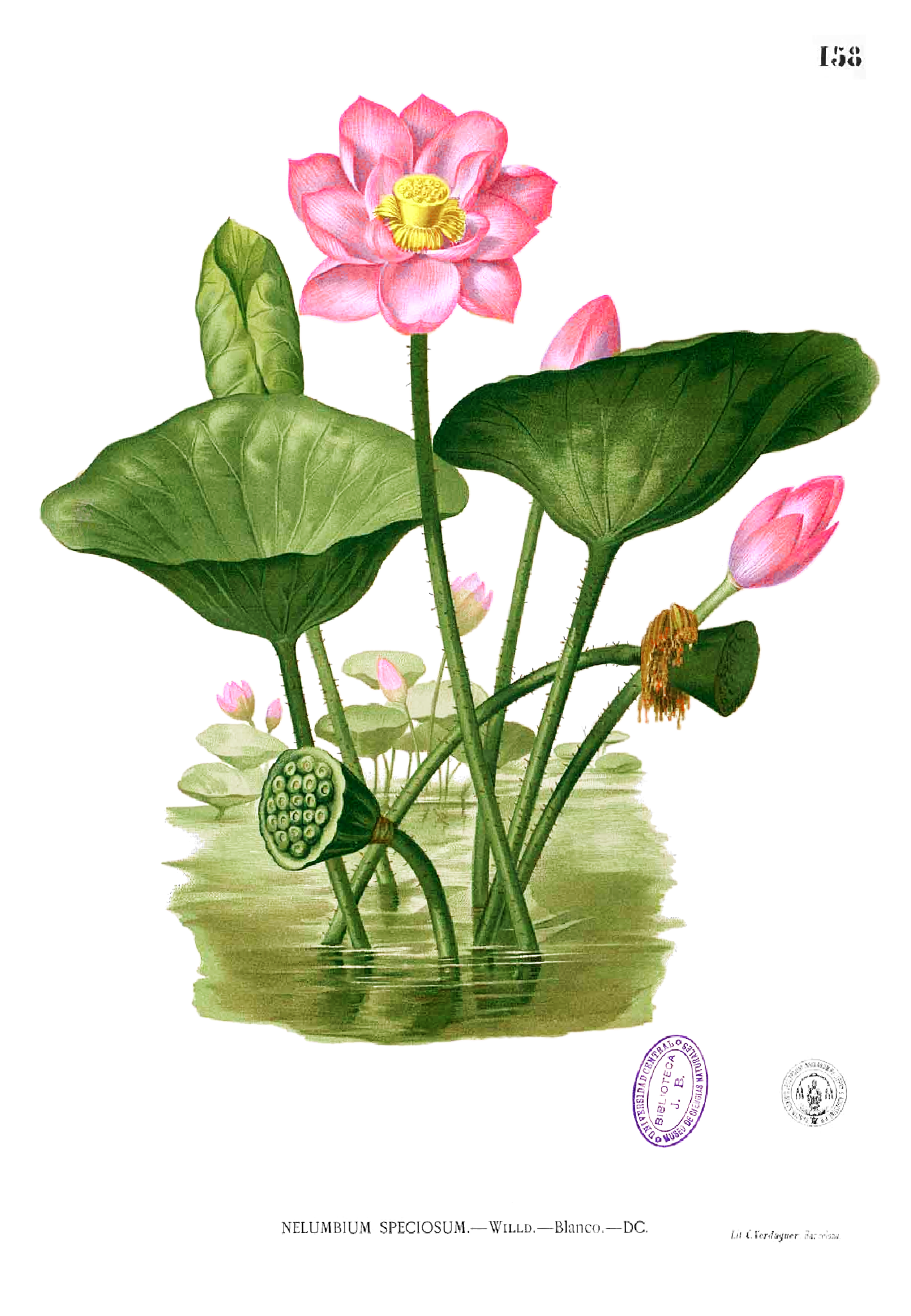 Plate from book